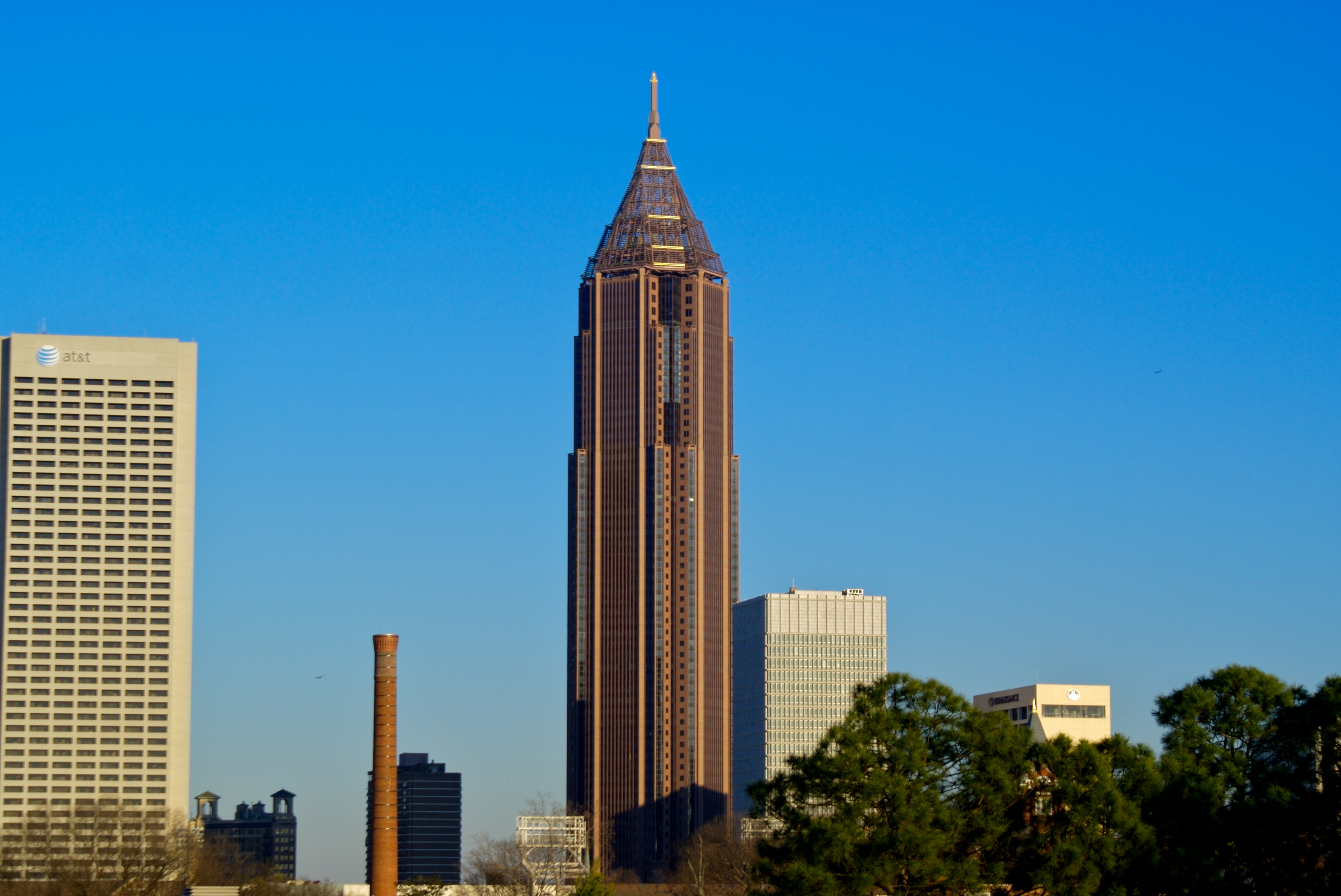 Bank of America tower - Atlanta